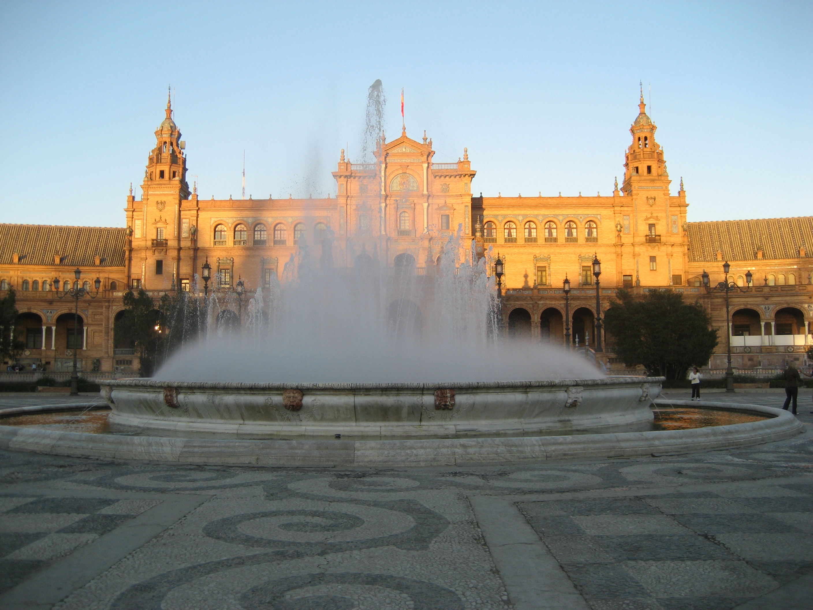 The fountain in the Plaza de España in Sevilla Spain.